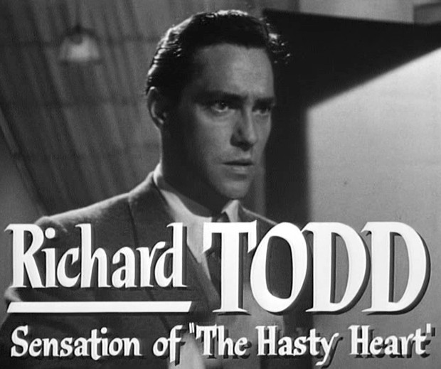 Cropped screenshot of Richard Todd from the trailer for the film Stage Fright